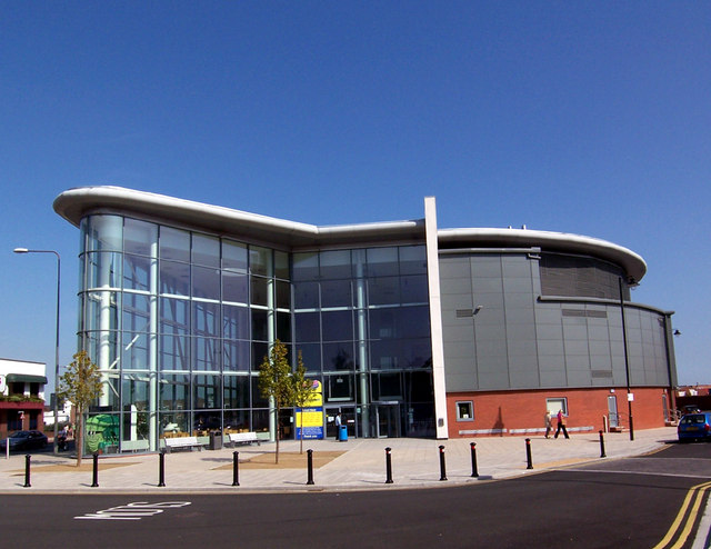 Hull College. Situated near North Bridge, Hull, East Riding of Yorkshire, England.